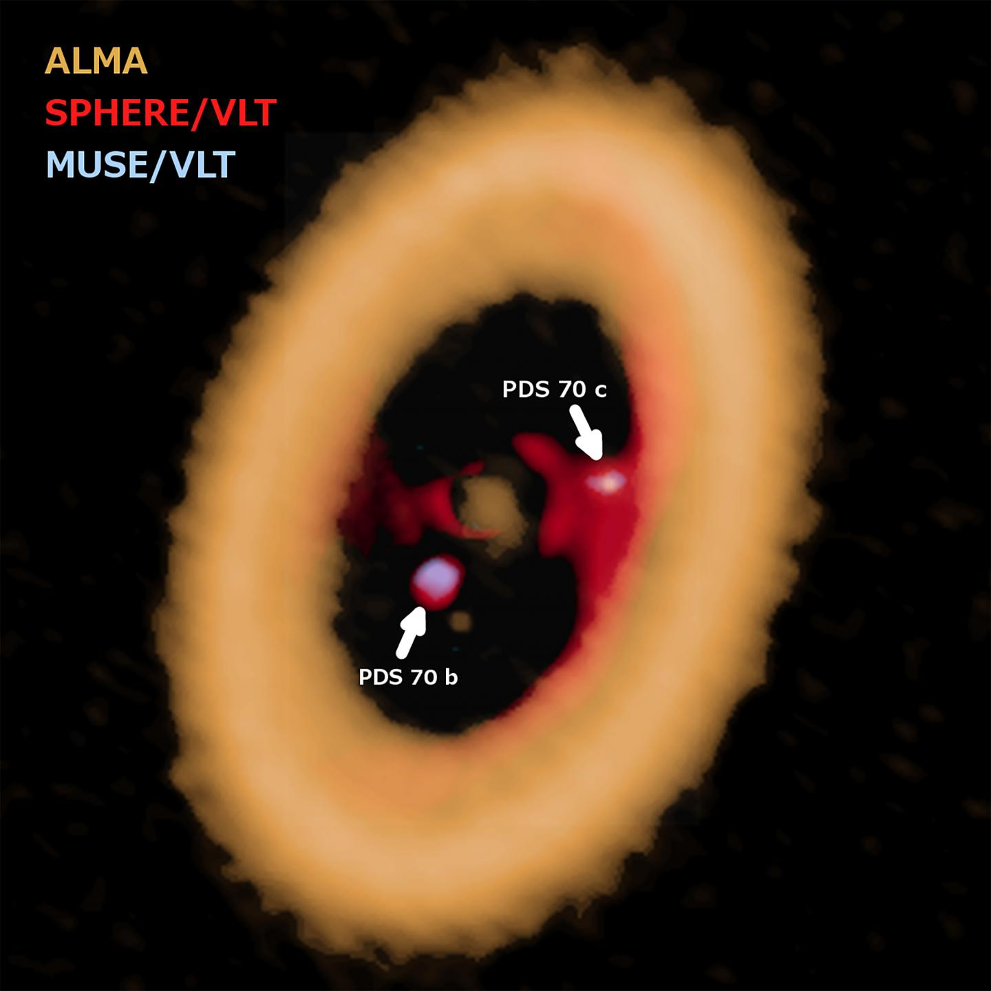 Composite image of PDS 70. Comparing new ALMA data to earlier VLT observations, astronomers determined that the young planet designated PDS 70 c has a circumplanetary disk, a feature that is strongly theorized to be the birthplace of moons. PDS 70 c is at a distance of 5.3 billion kilometers from its star, or approximately the distance of Uranus. Also visible in this image is another young planet, PDS 70 b, which lies at about the same distance from its star as Neptune; and the remains of a protoplanetary disk, which these planets formed out of.